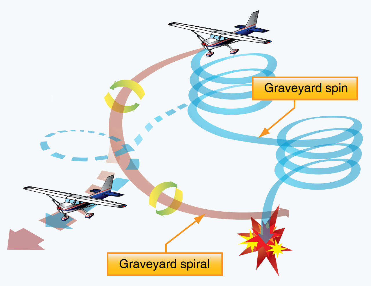 Graveyard spiral diagram from Figure 16-5 of the Federal Aviation Administration handbook, "Pilot's Handbook of Aeronautical Knowledge", 2008 edition